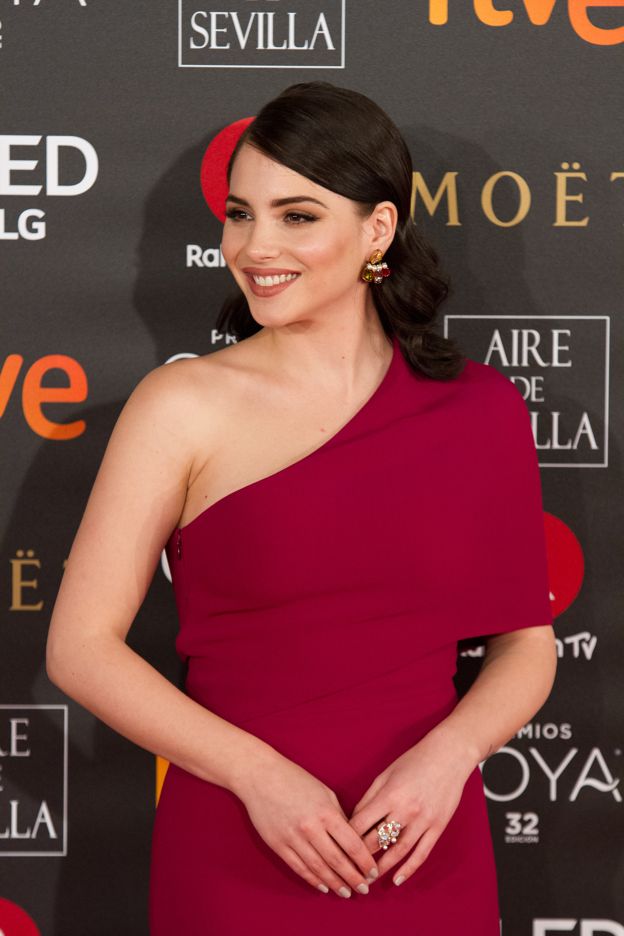 32nd Goya Awards, 2018.